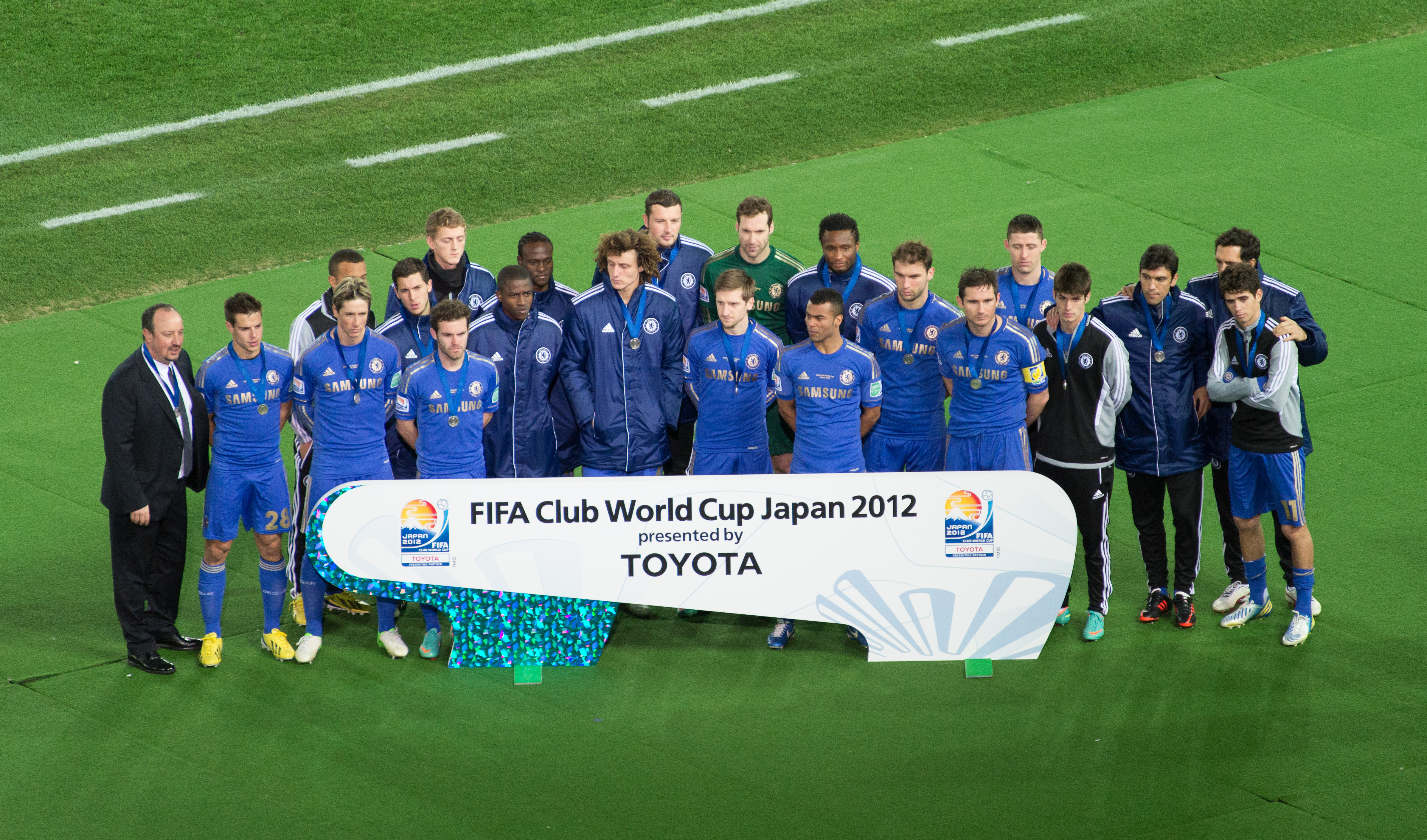 Chelsea at the 2012 FIFA Club World Cup in Japan after losing to Corinthians in the final.